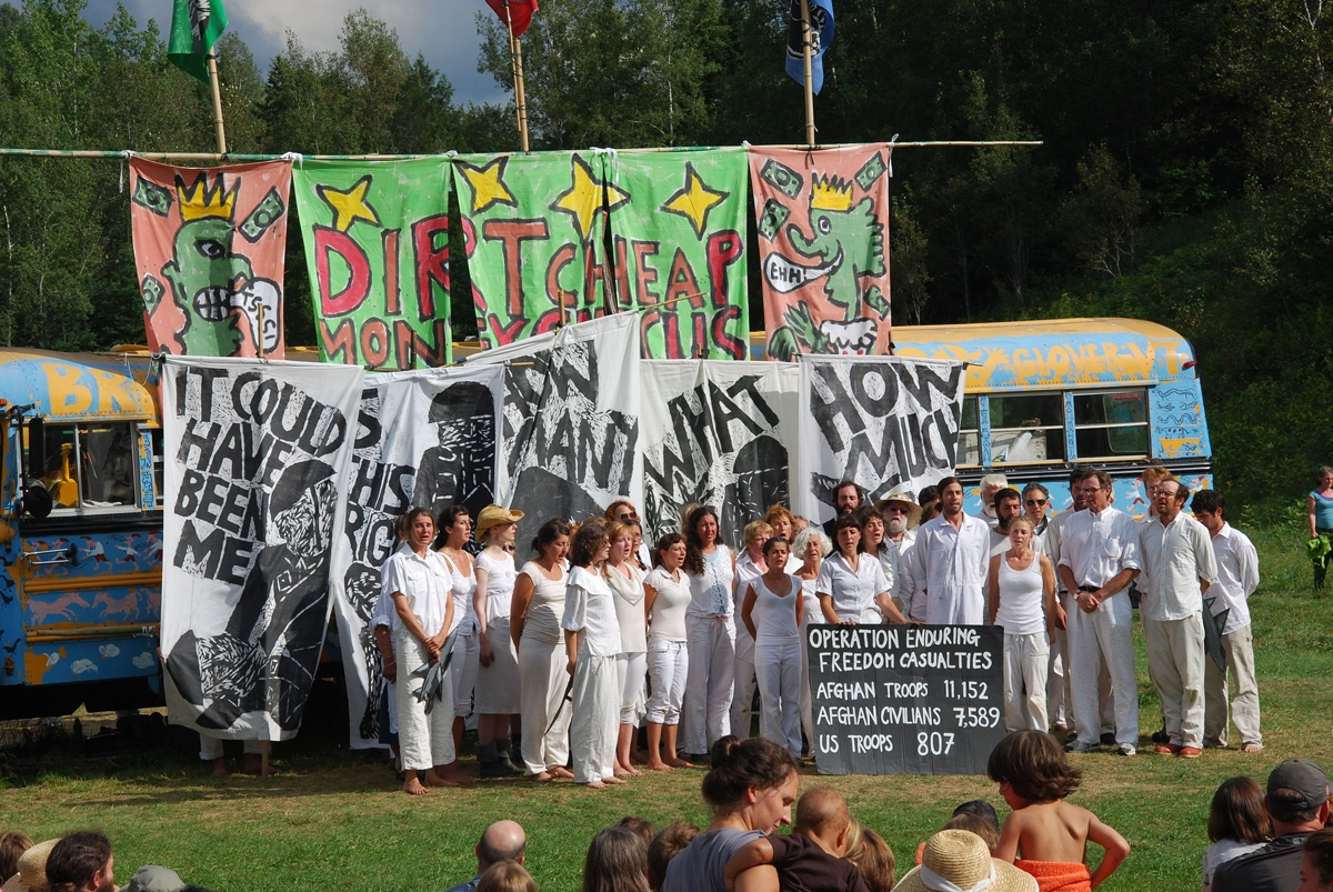 Bread and Puppet show in August 2009